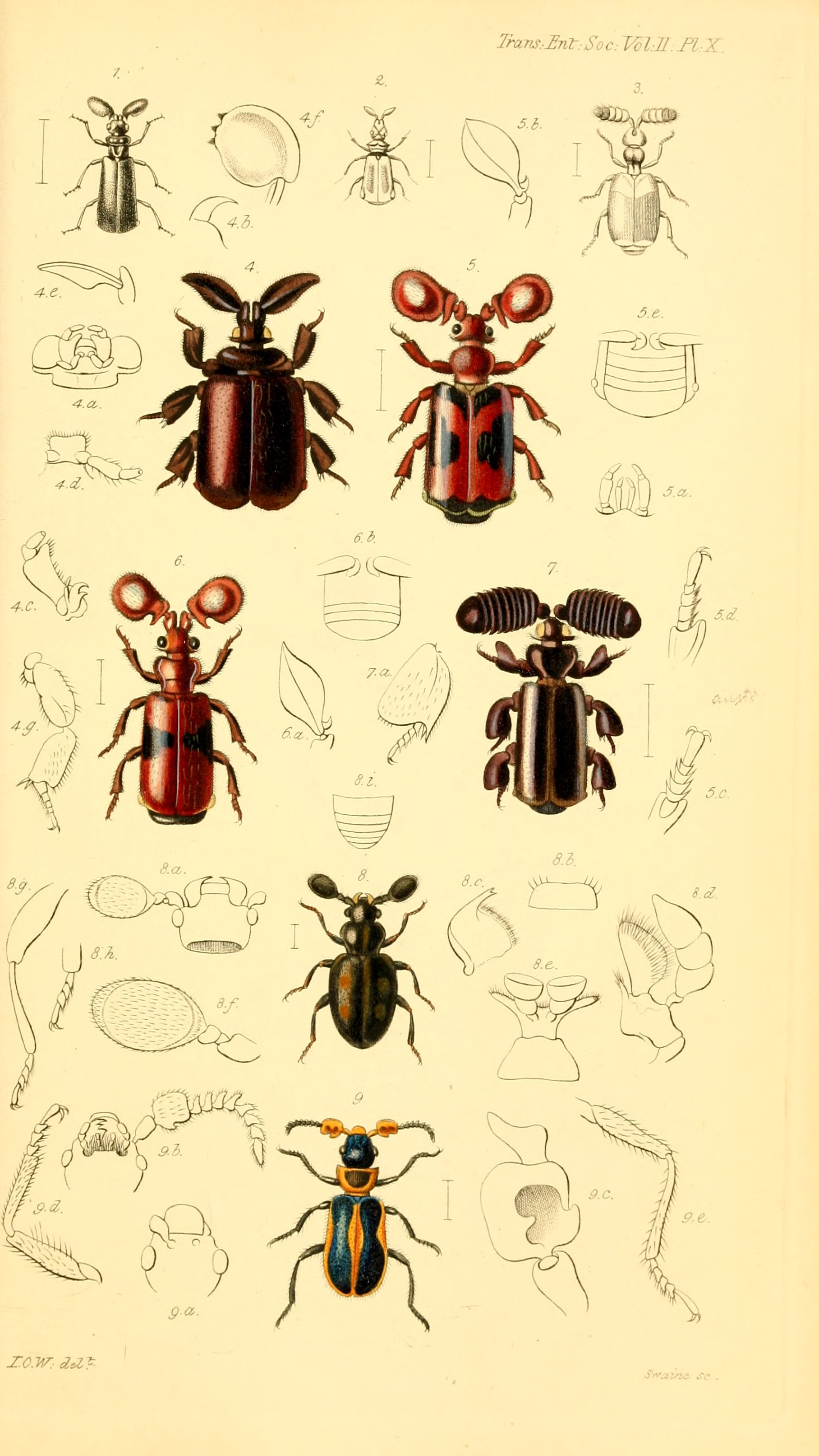 Fig. 1. Paussus curvicornis Fig. 2. Paussus Turcicus Fig. 3. Paussus bifasciatus Fig. 4. Platyrhopalus melleii Fig. 5. Platyrhopalus westwoodi Fig. 6. Platyrhopalus angustus Fig. 7. Cerapterus macleayii Fig. 8. Trochoideus dalmanni Fig. 9. Megadeuterus haworthii